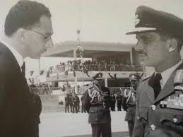 Thouqan with Hussein of Jordan (2)